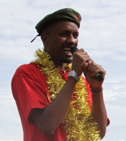 In a political rally in Siaya county Kenya